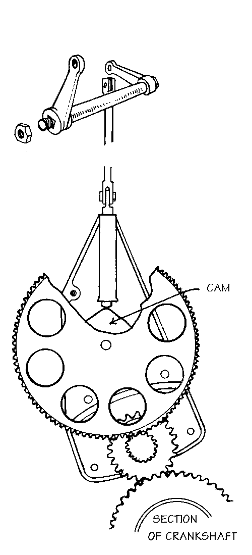 Diagram (from Official Royal Navy manual0 of the cam gear of the Scarff Dibovsky synchonisation gear.